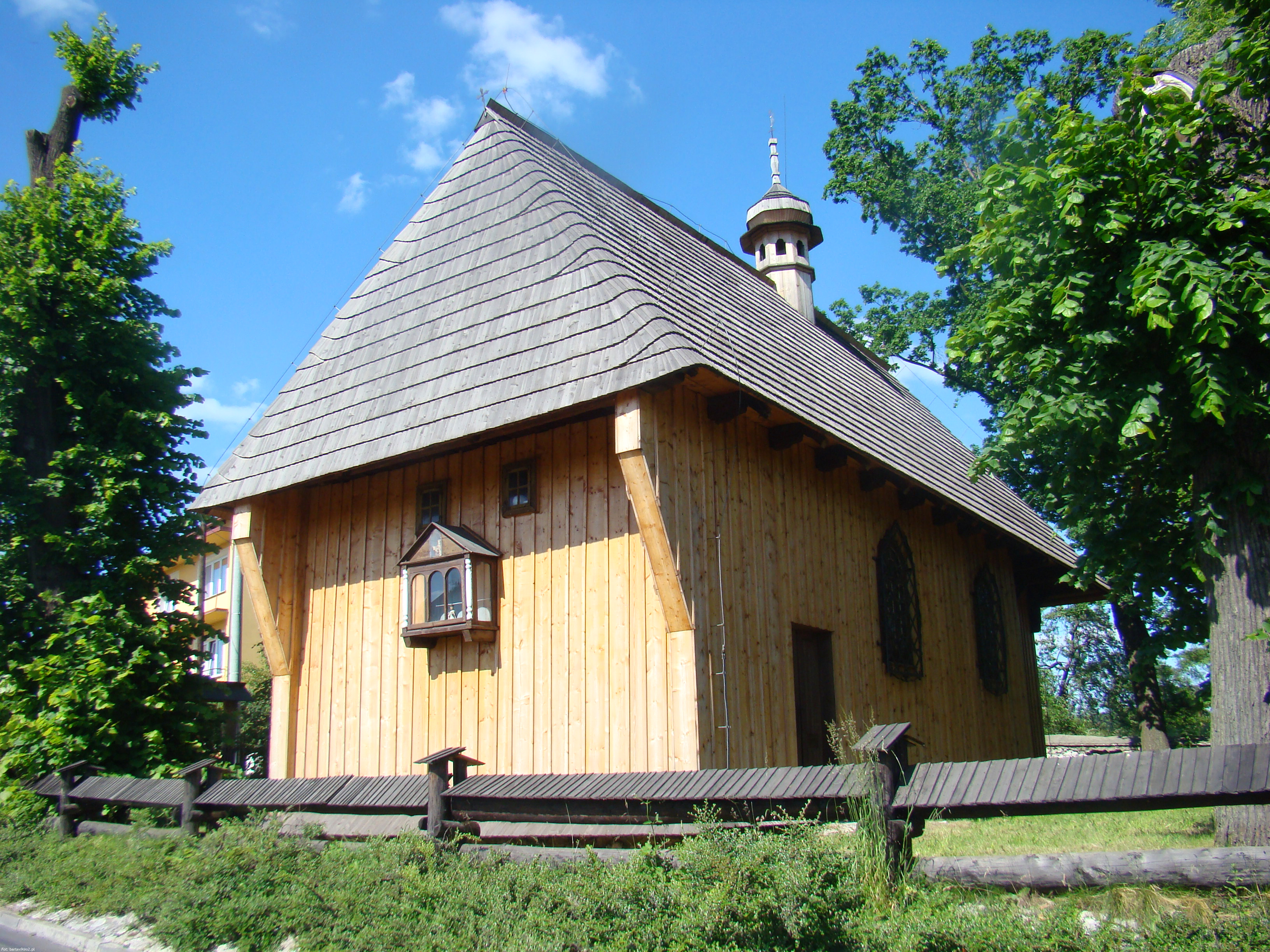 Wooden church from 1601 in Rodaki.